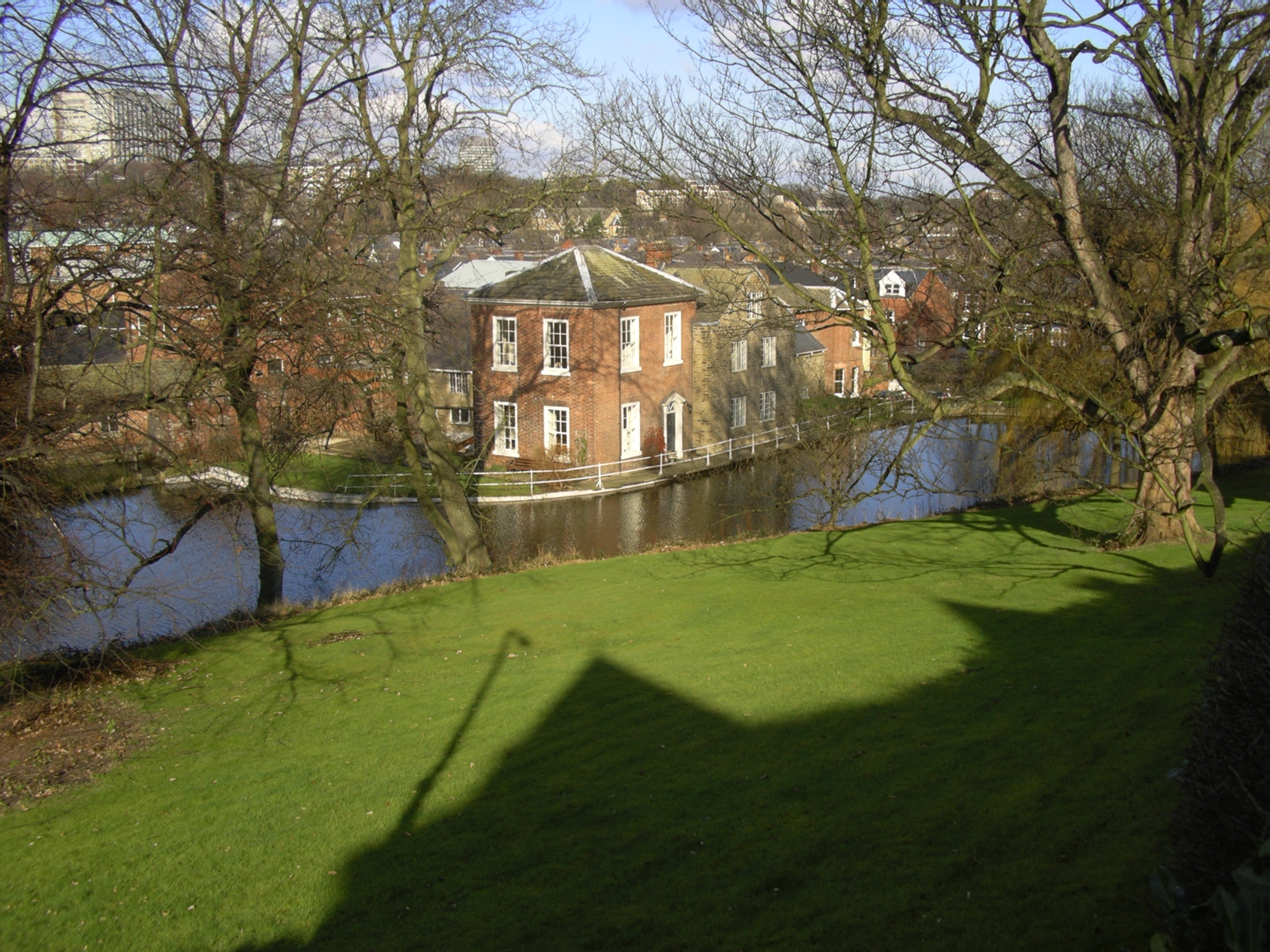 Sharrow Mills in Sheffield, looking north across the Porter Brook.